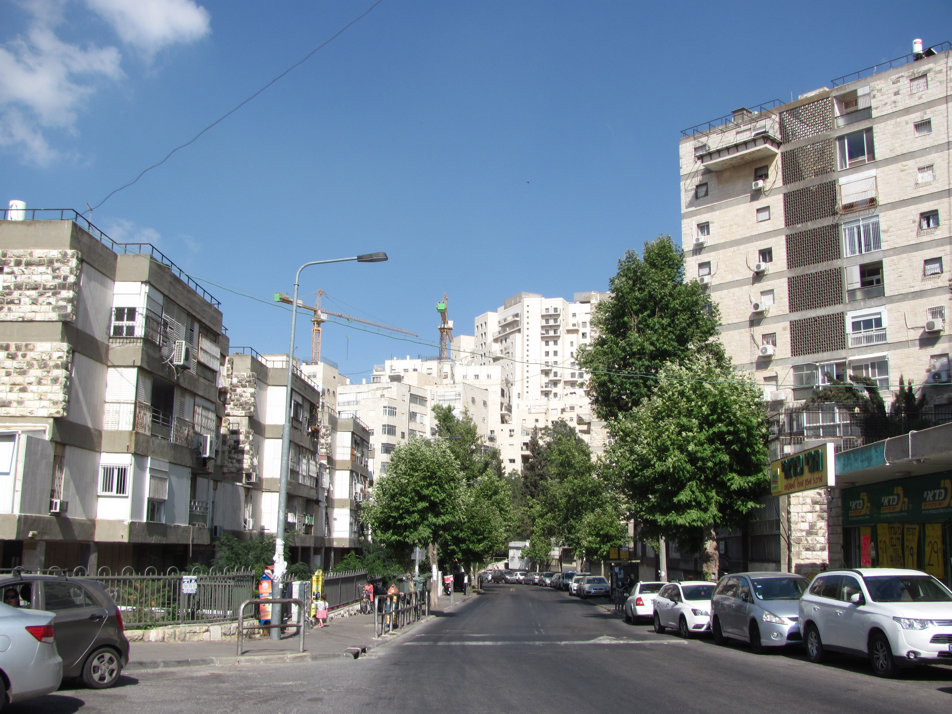 Partial view of Kiryat Itri neighborhood of Jerusalem, Israel, looking east. Buildings on the right and left are the original neighborhood; buildings in background are part of the Kiryat Belz neighborhood.